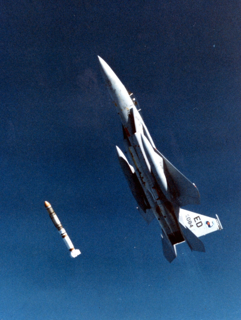 U.S. ASAT (Anti-satellite) missile launch on Sep. 13, 1985. Taken at the Pacific Missile Test Range in California.